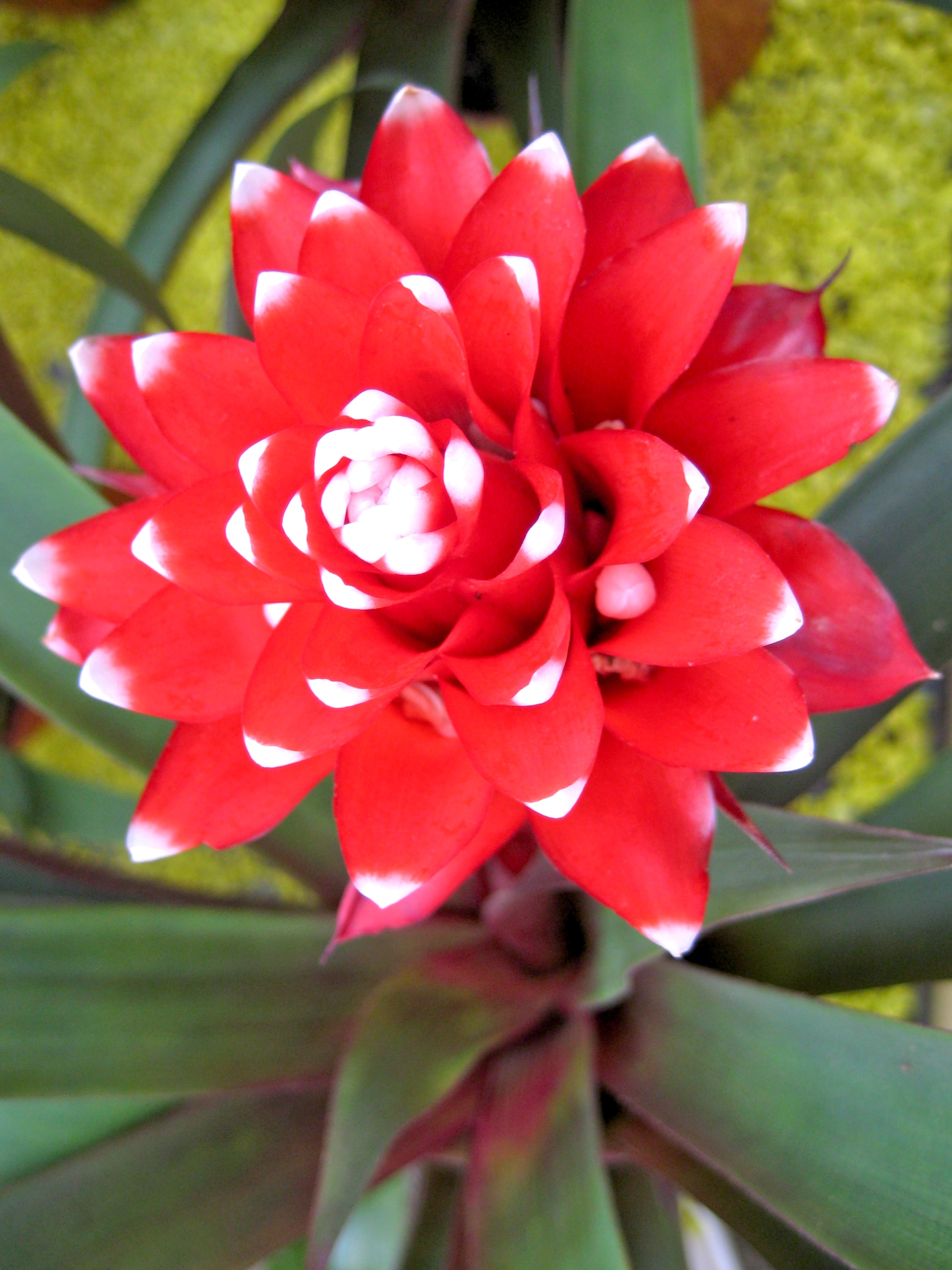 Guzmania 'El Cope'